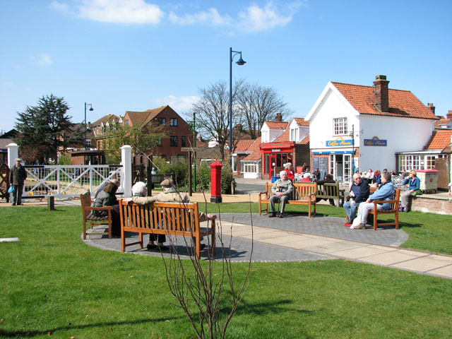 Sheringham - the new level crossing, near to Sheringham, Norfolk, Great Britain. Enjoying the sunshine at Otterndorf Green by the new level crossing in Sheringham. The crossing was re-opened on Thursday 11th March, when Pete Waterman OBE welcomed Britannia class 70013 ?Oliver Cromwell? bringing the first train over Station Road for 46 years.